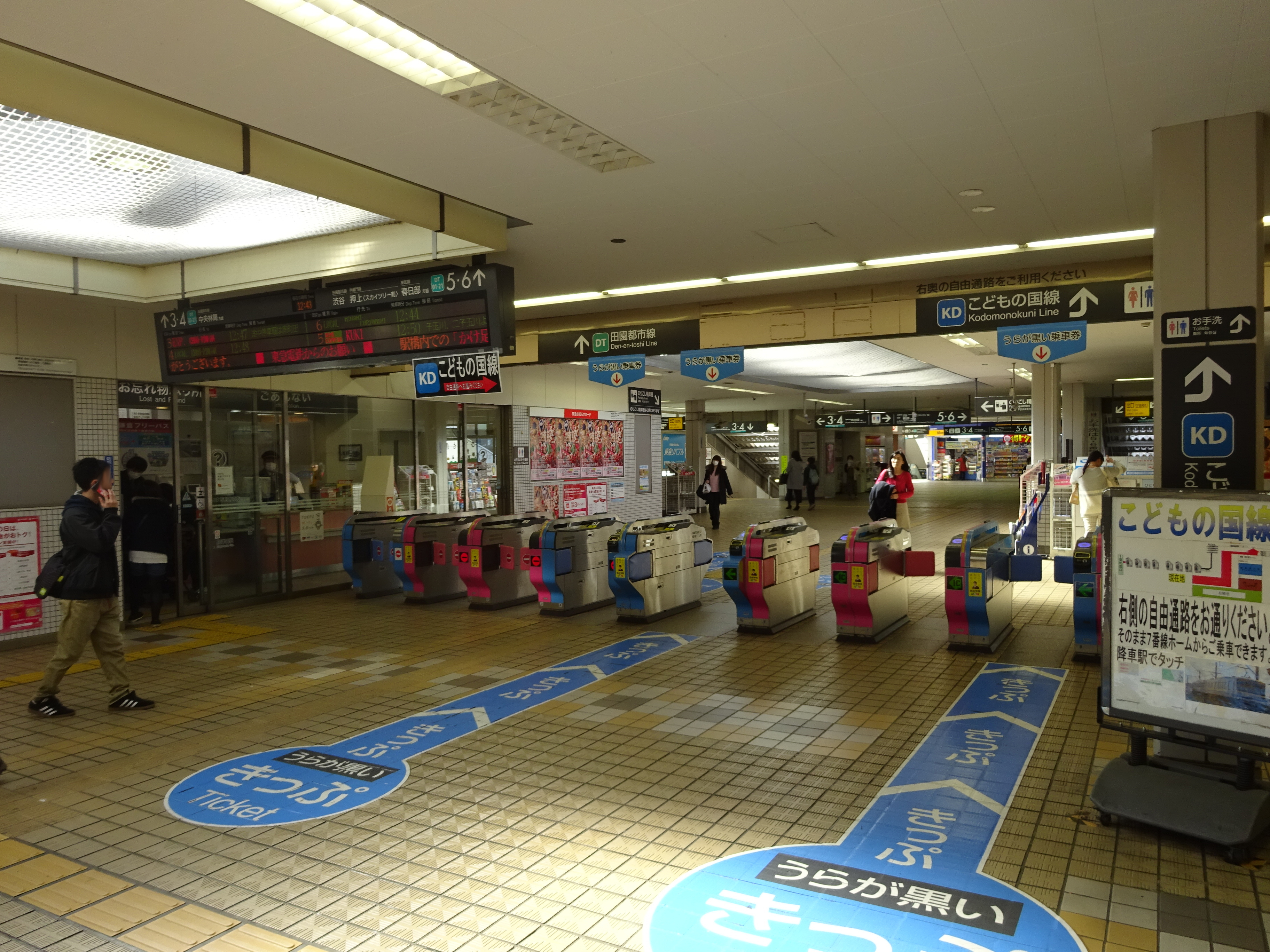 Ticket gate of Nagatsuta Station(Tokyu)